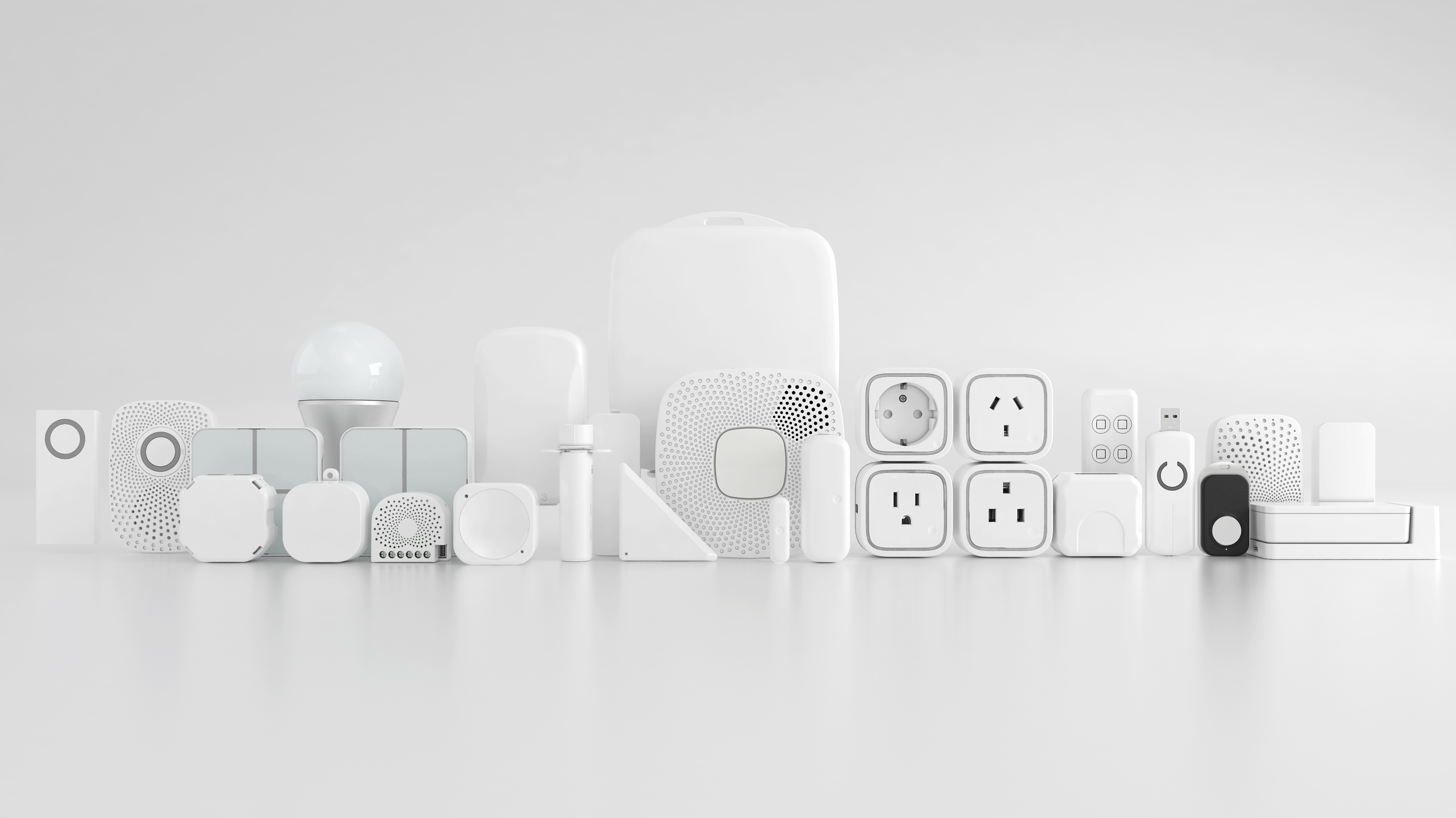 Home automation products made by Aeotec by Aeon Labs utilising Sigma Designs' wireless Z-Wave technology.